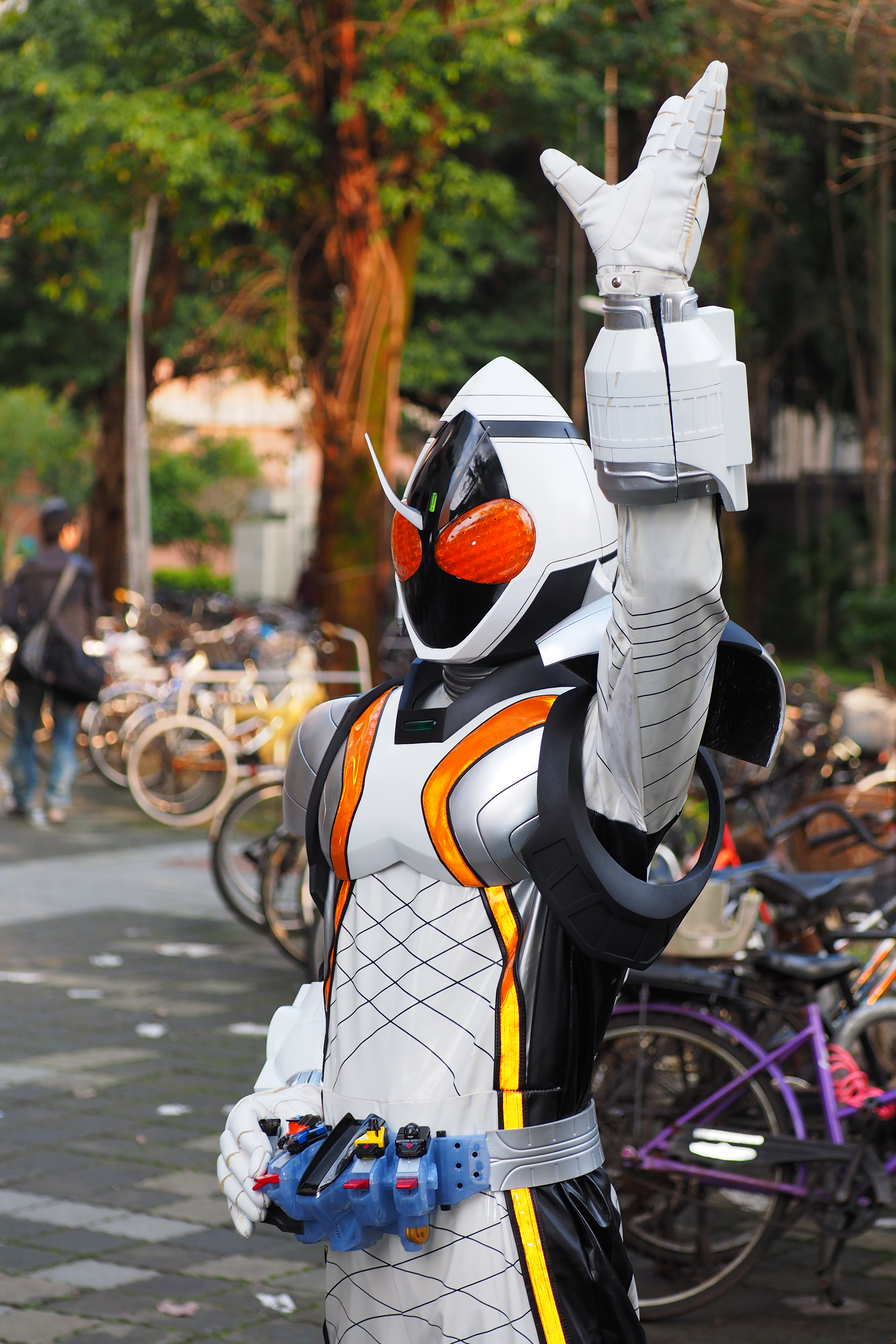 Fancy Frontier 23 Fancy Frontier 23